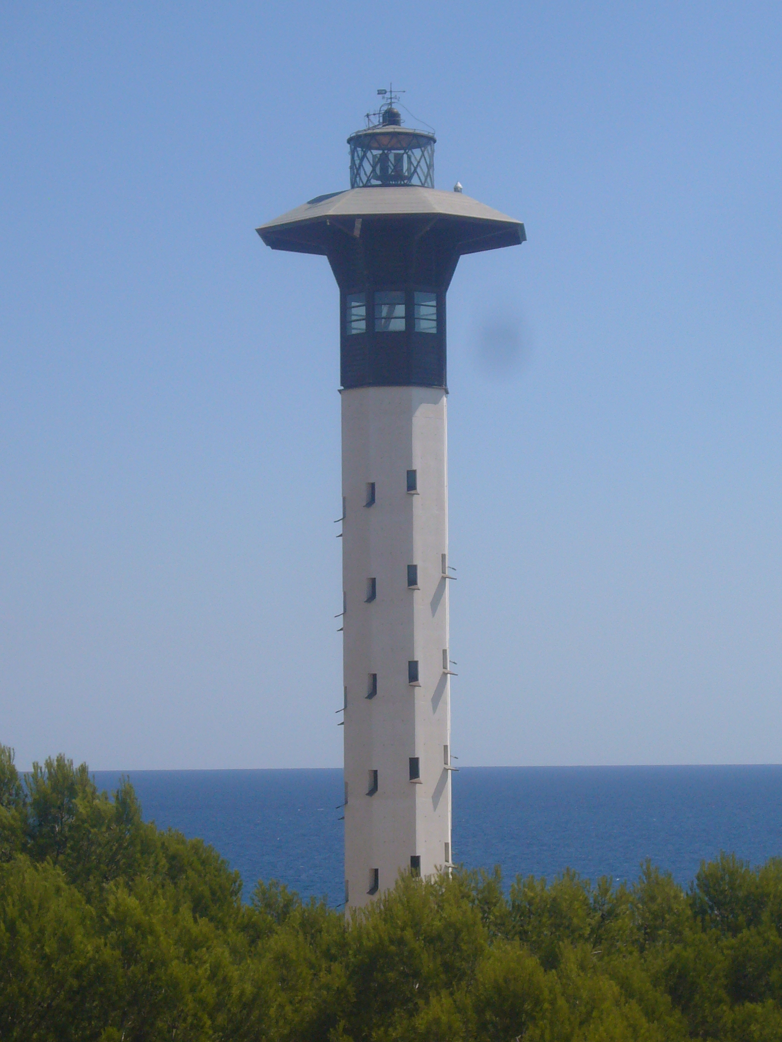 Lighthouse of Torredembarra